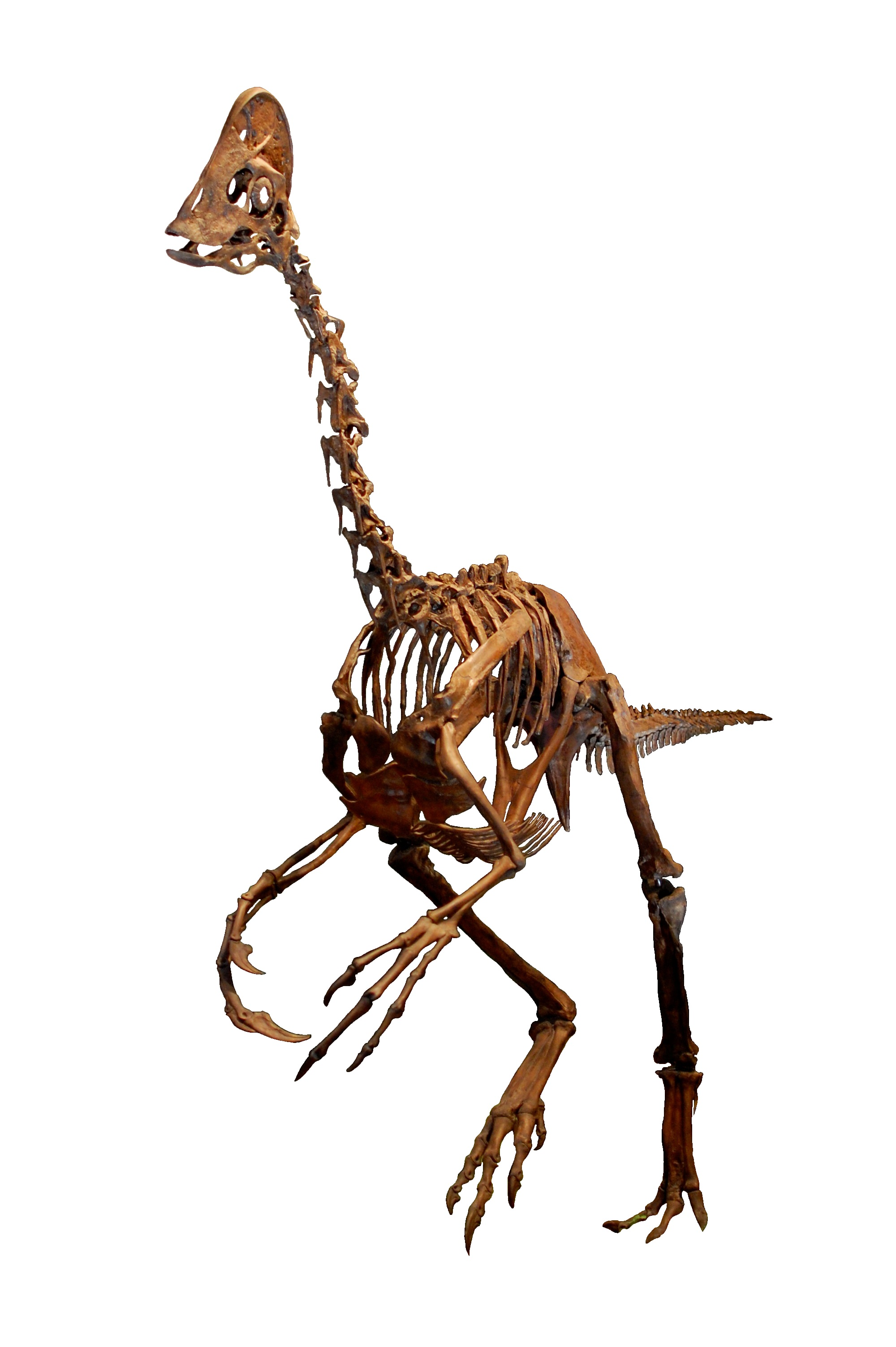 Restored skeleton of Anzu wyliei (previously labelled as a specimen of Chirostenotes)